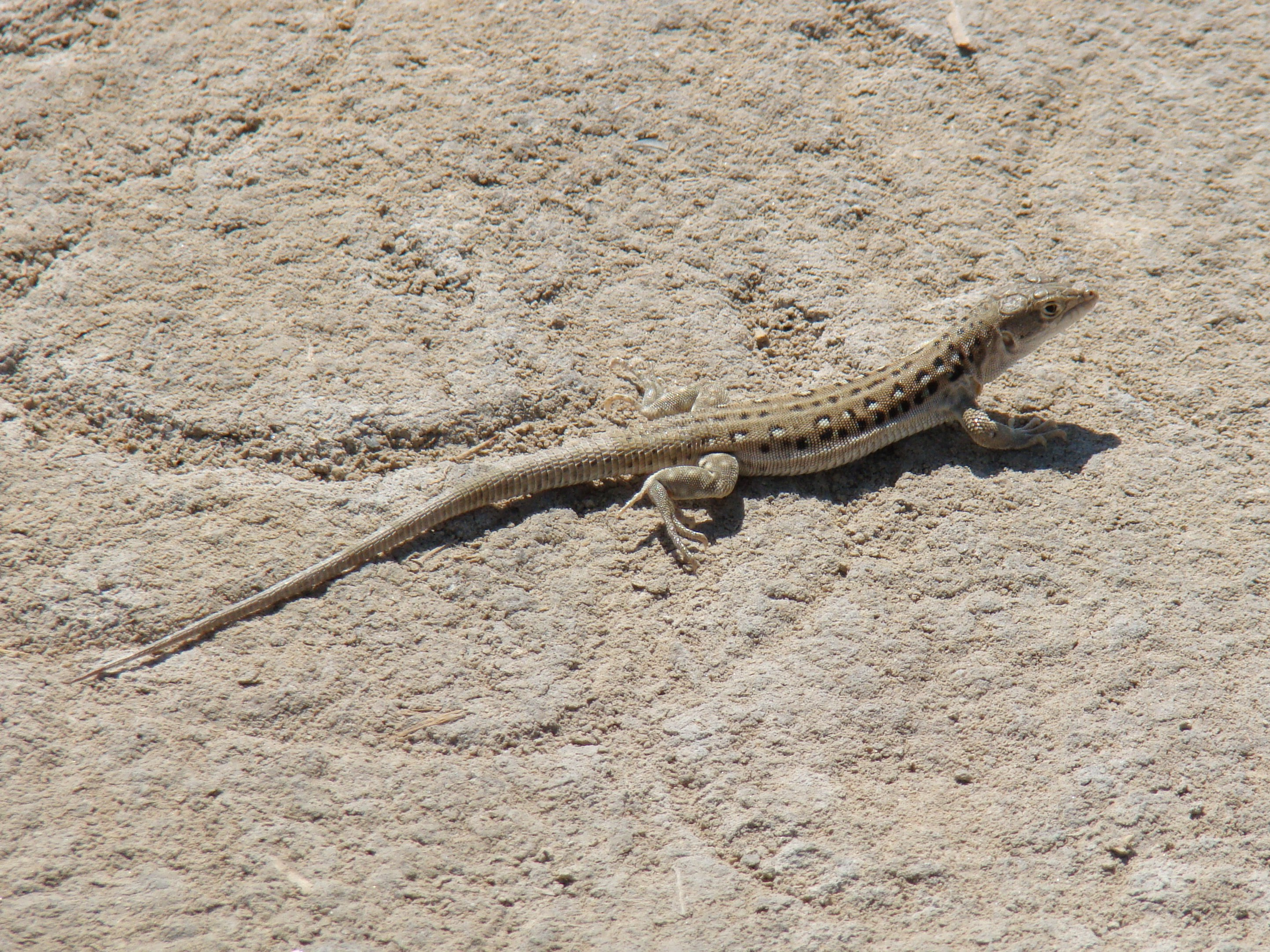 Rapid Racerunner (Eremias velox). Kazakhstan, Kyzylorda region, Baikonur.